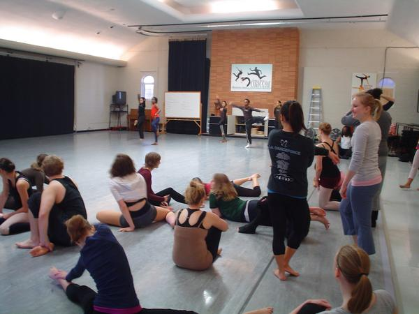 Members of the Garth Fagan Dance Company warm up before a "master class" at Western Oregon University, January 2008.